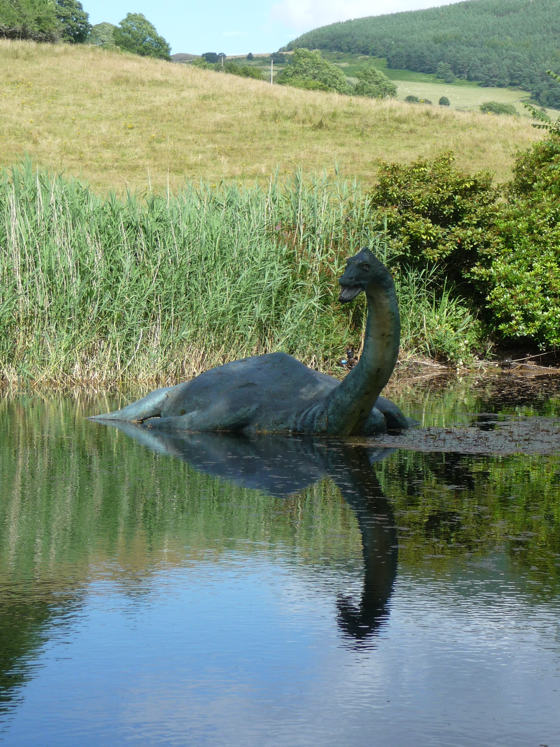 Drumnadrochit